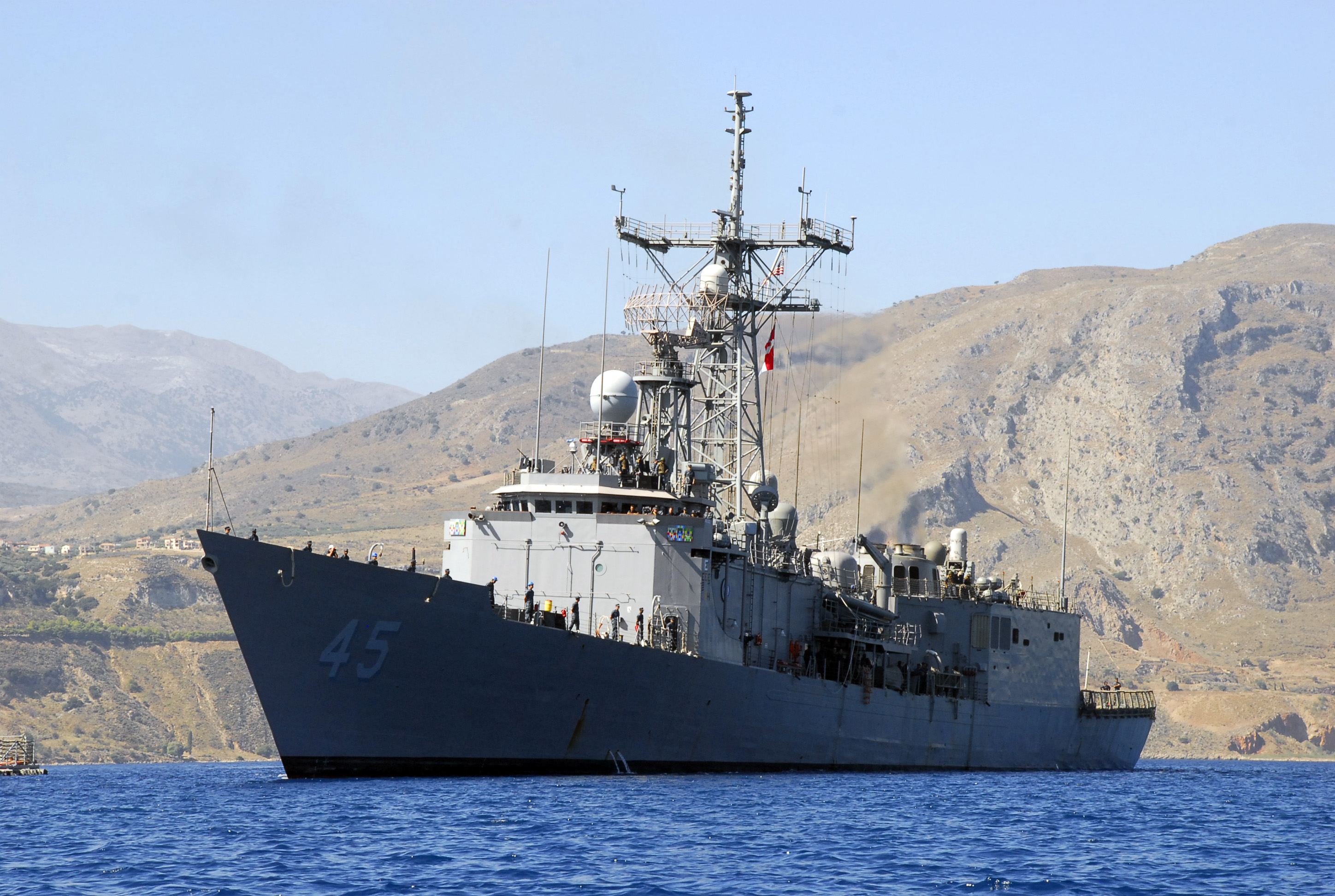 SOUDA BAY, Greece (Aug. 24, 2011) The Oliver Hazard Perry-class guided-missile frigate USS De Wert (FFG 45) arrives at U.S. Naval Support Activity Souda Bay for a routine port visit. (U.S. Navy photo by Mass Communication Specialist 2nd Class Cayman Santoro/Released)